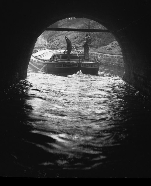 Short boat leaving Foulridge Tunnel, Leeds and Liverpool Canal We had followed the short boat 'Wye' through the tunnel, so were sble to get this shot just after it had emerged.